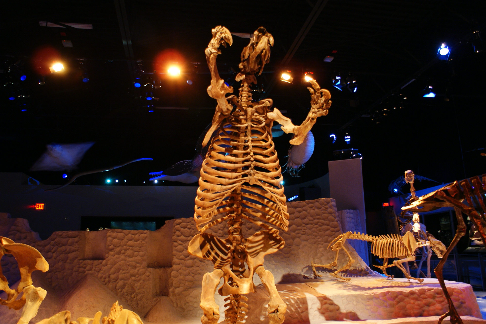 Florida Museum of Natural History Fossil Hall at the University of Florida Thinobadistes segnis (or the slow beach walker) is a Miocene mylodontid ground sloth that arrived in North America before the creation of the Isthmus of Panama and is thought to have traveled through the Caribbean islands by island hopping.